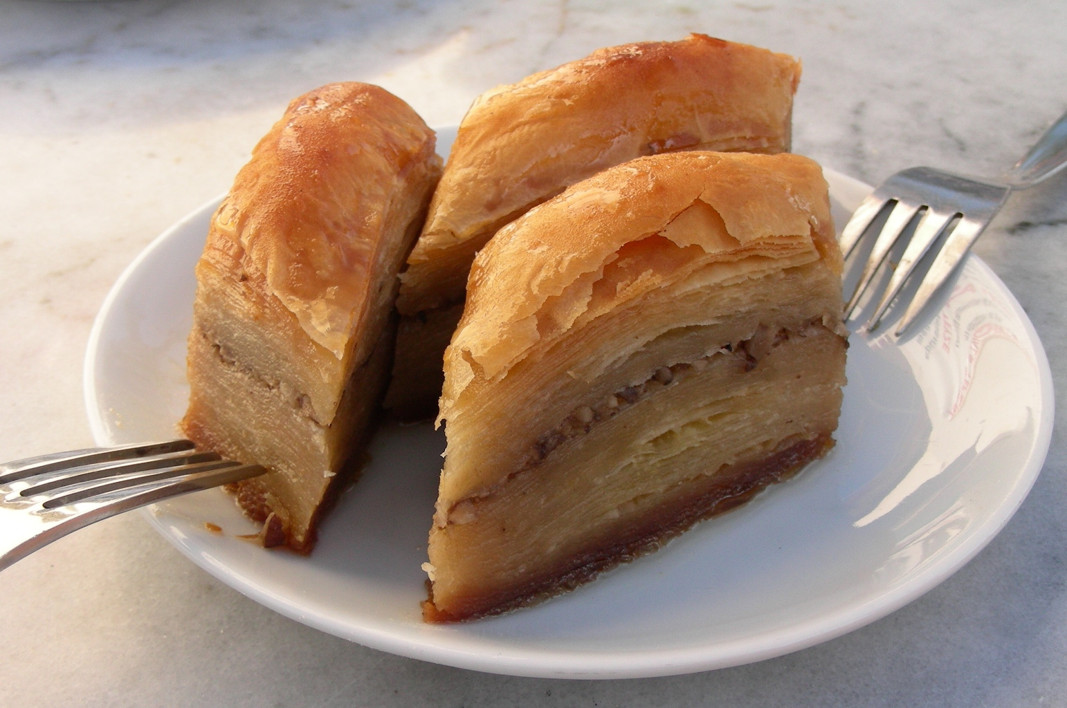 80-ply dough baklava (which is usually 40-ply), speciality of Beypazarı district of Ankara,Turkey